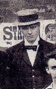 Sam Gleaves